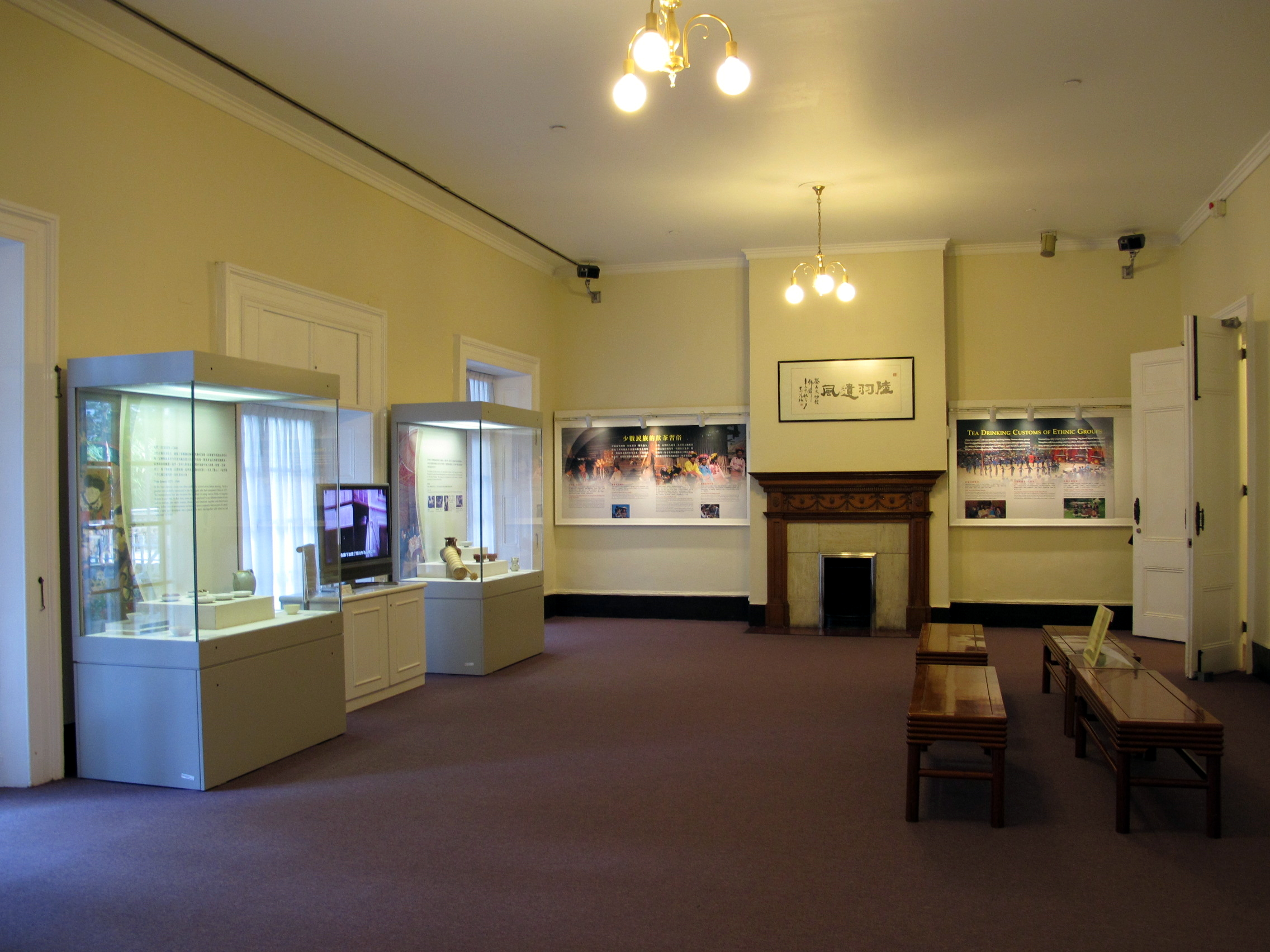 Flagstaff House Museum of Tea ware Interior 茶具文物館